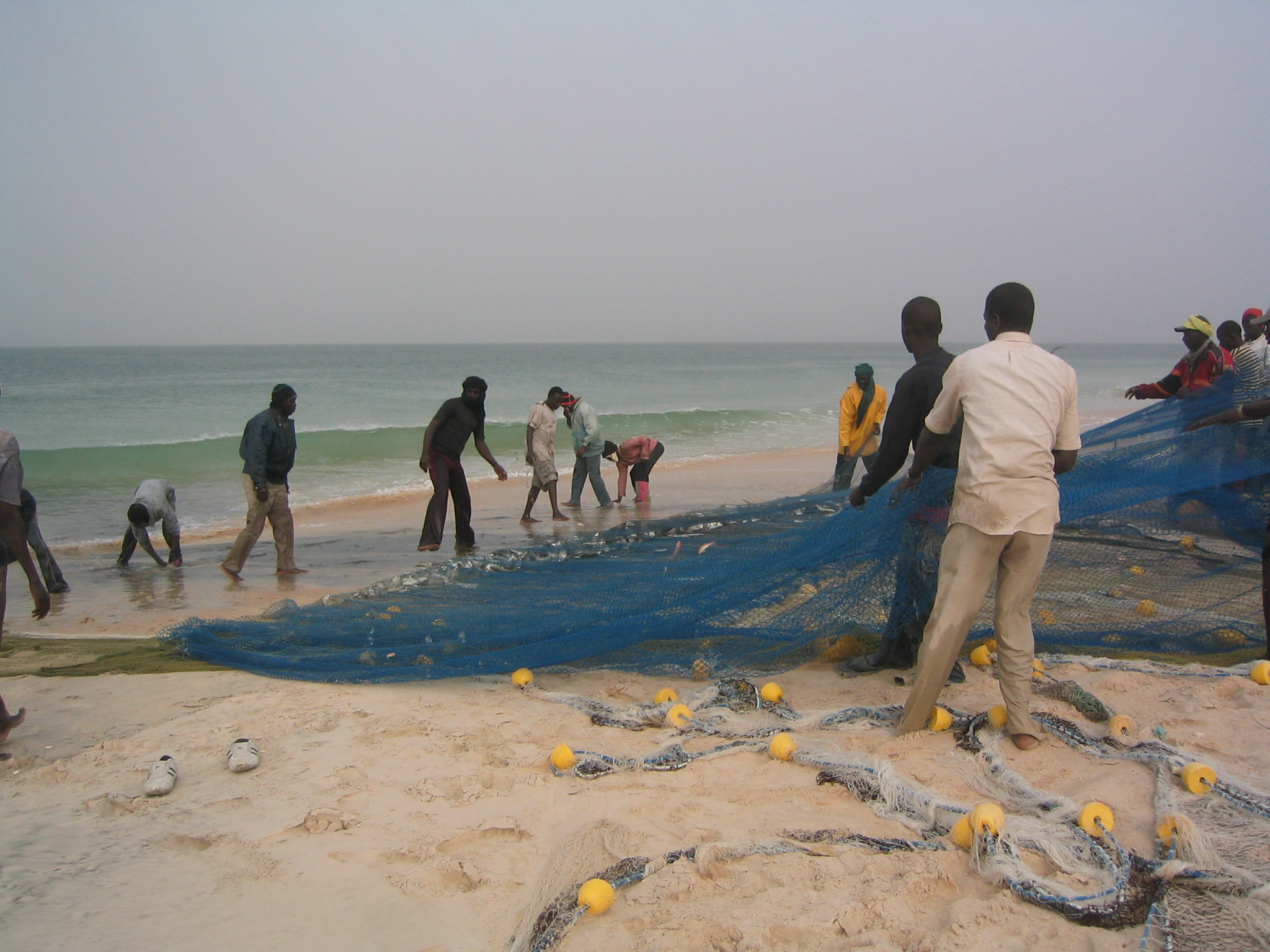 Net fishing, Nouakchott beach (Mauritania)